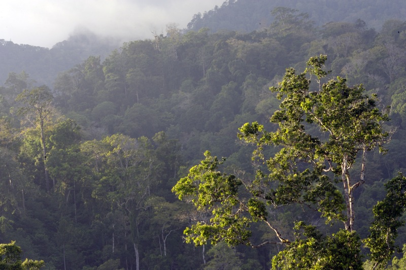 View from cultivated land looking at virgin jungle across the valley Tangkoko Nature Reserve, North Sulawesi, Indonesia